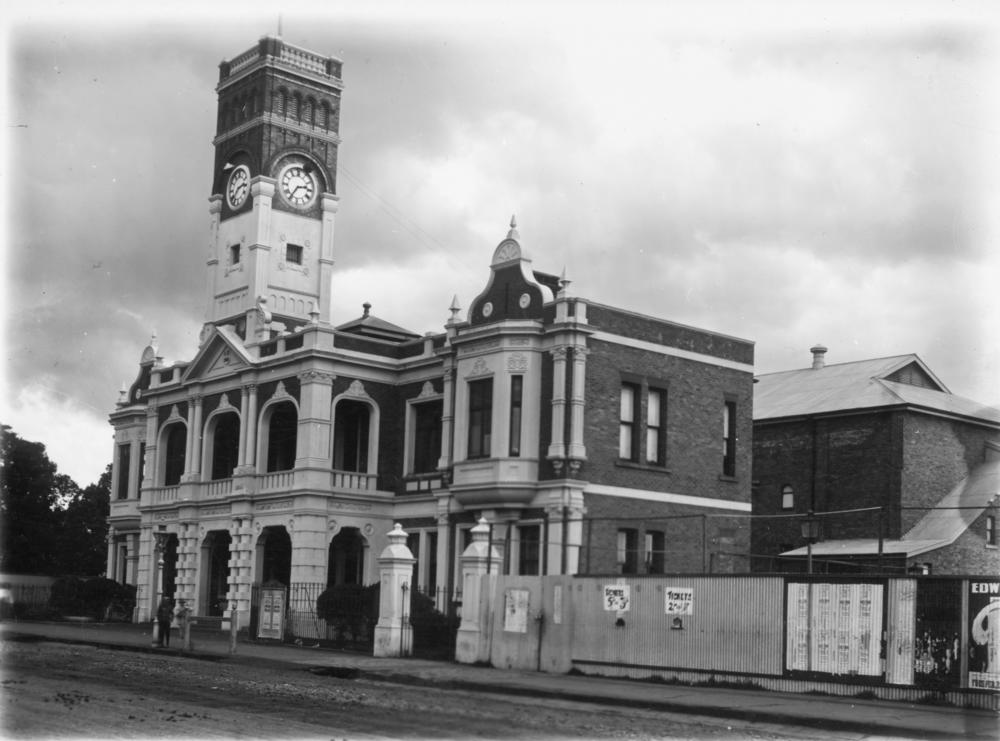 Town Hall, Toowoomba, 1915. The foundation stone was laid for this building on 20 February 1900. The building features a clock tower which has four faces. Toowoomba City Hall, the city's third town hall, was built in 1900 to a design by Willoughby Powell on the site of the School of Arts. When first constructed, City Hall incorporated municipal offices and council chambers, rooms for a school of arts, a technical college and public hall.